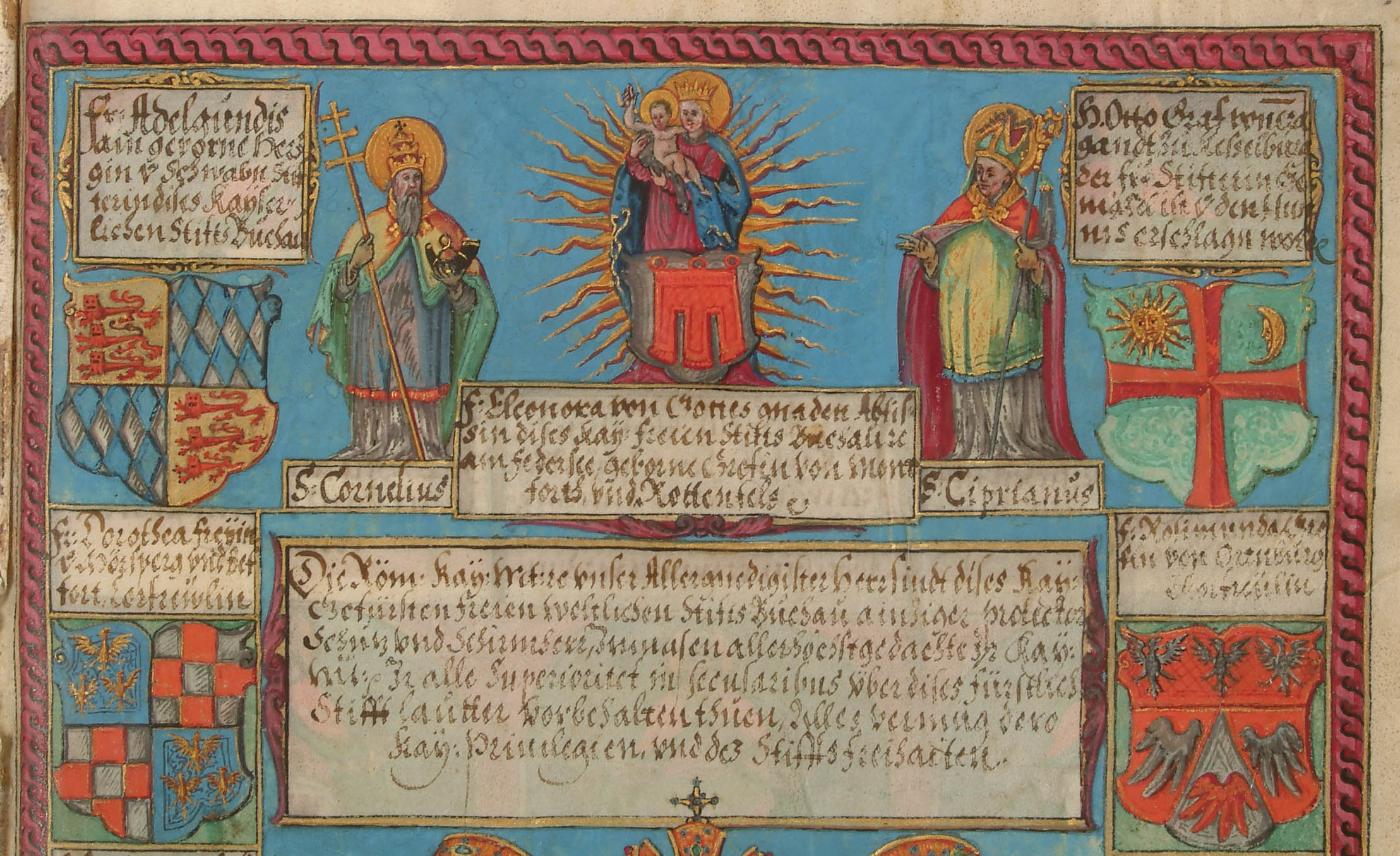 Attributed arms of Adelindis of Swabia, of Atto of Tragant and of other persons (including that of Eleonore von Montfort, abbess 1596-1610, under the depiction of the Madonna); illumination of an archival finding aid of the Imperial Abbey of Buchau, written in 1605 (Sigmaringen State archive, Dep. 30/14 T 2 Nr. 1757)